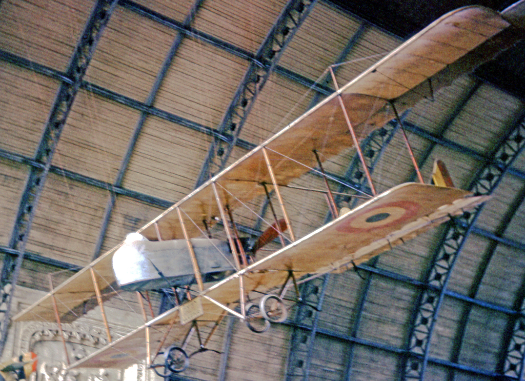 Farman F-11-A2 of the Belgian Air Force displayed in the Brussels War Museum in 1965